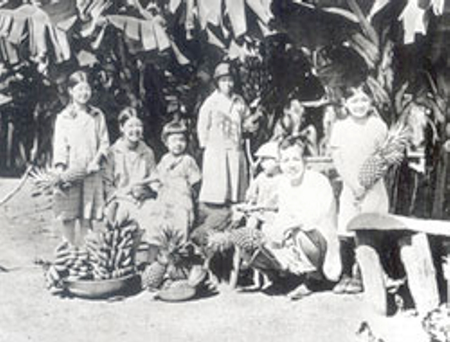 Japanese immigrant family in Brazil